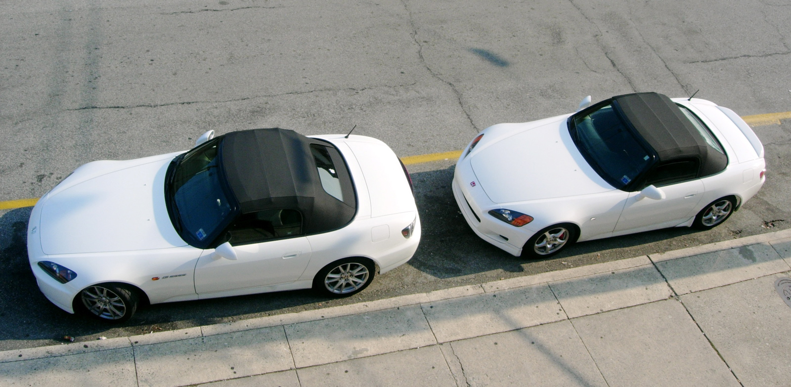 Two Honda S2000s seen from above. Year 2004 in front of year 2000. The AP1 has the OEM front lip, side strakes and rear spoiler. If you look closely, you can also see the difference in rear window sizes between the glass AP2 and the larger plastic AP1 windows.